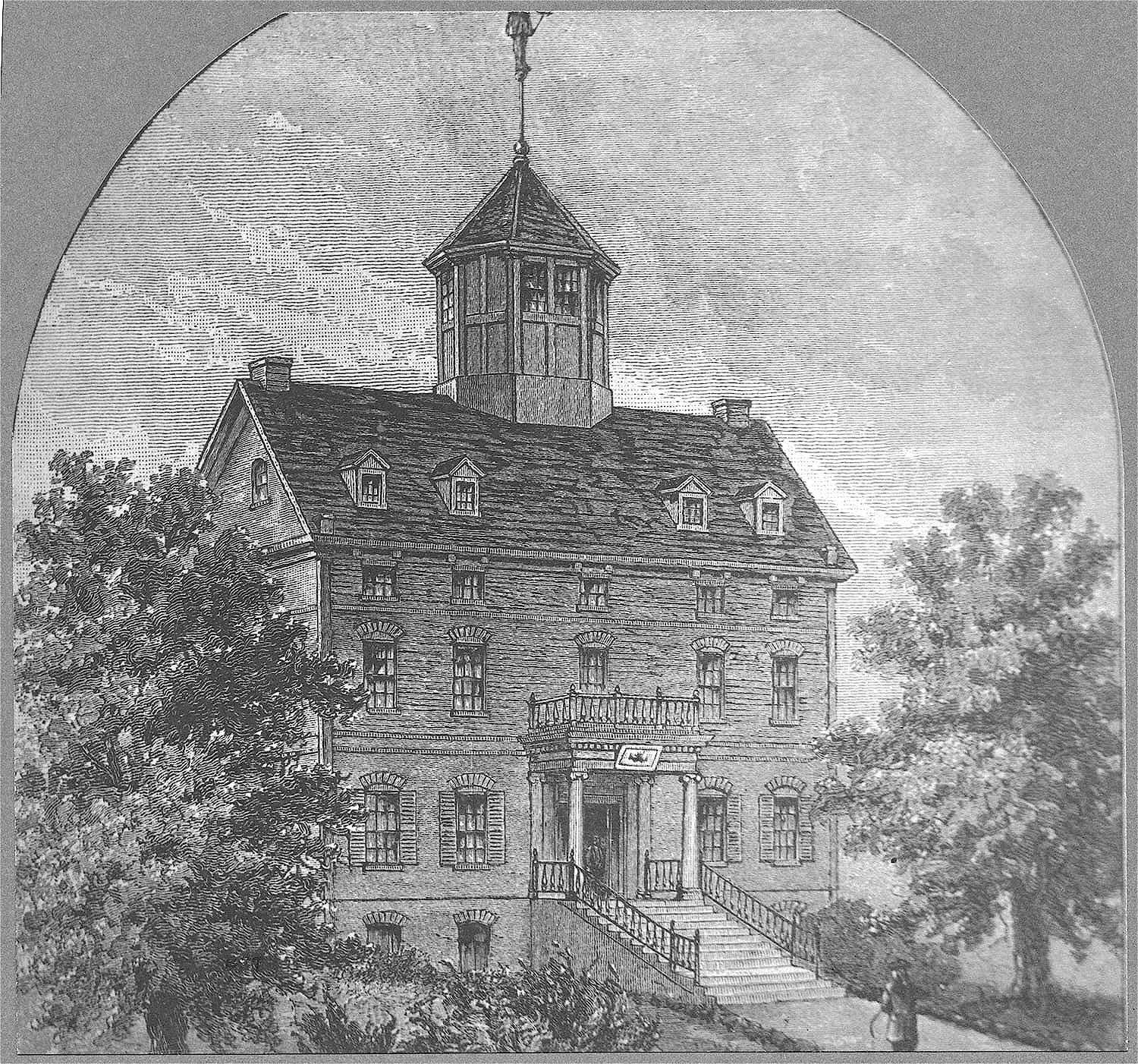 Province House, Boston MA. Engraver: Kilburn. 1898 (approximate). Copy photograph from wood engraving illustration by Kilburn in The Memorial History of Boston. From pg. 88, Vol. 2 of The Memorial History of Boston, Edited by Justin Winsor, James R. Osgood & Co., Boston, 1882.